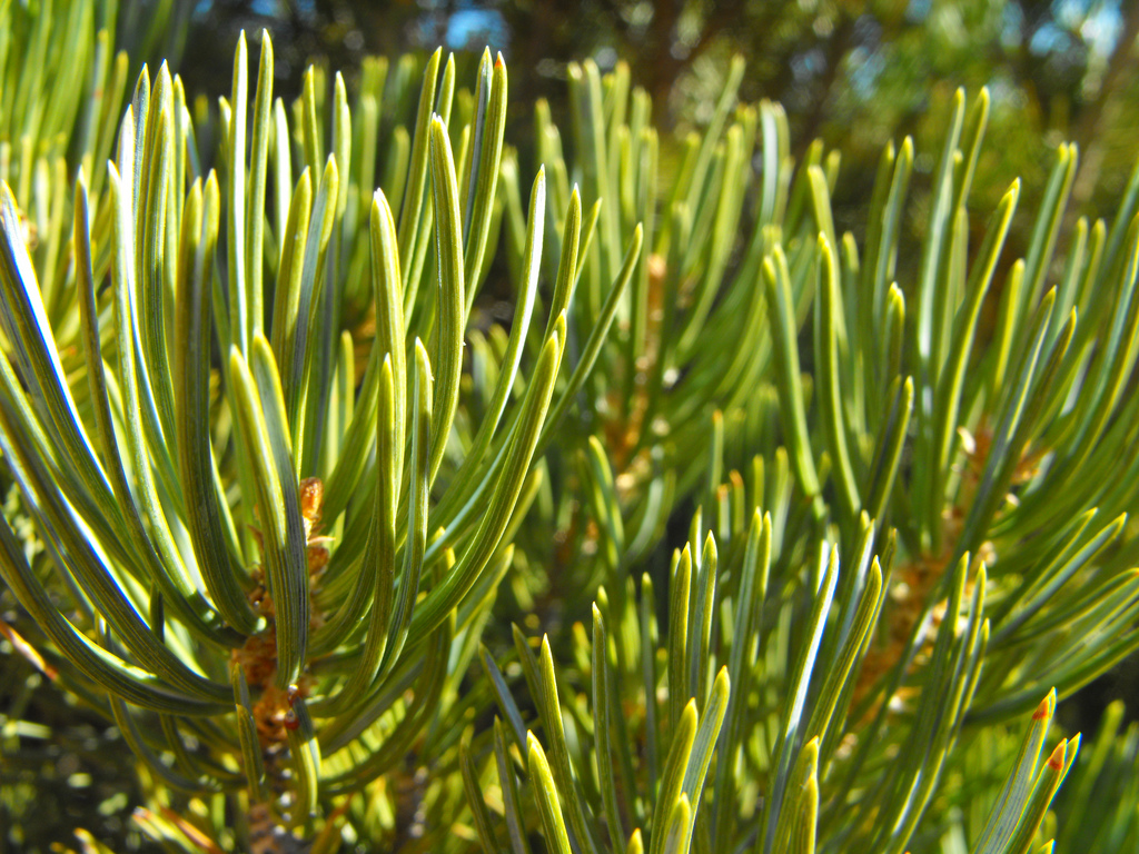 Pinus edulis foliage